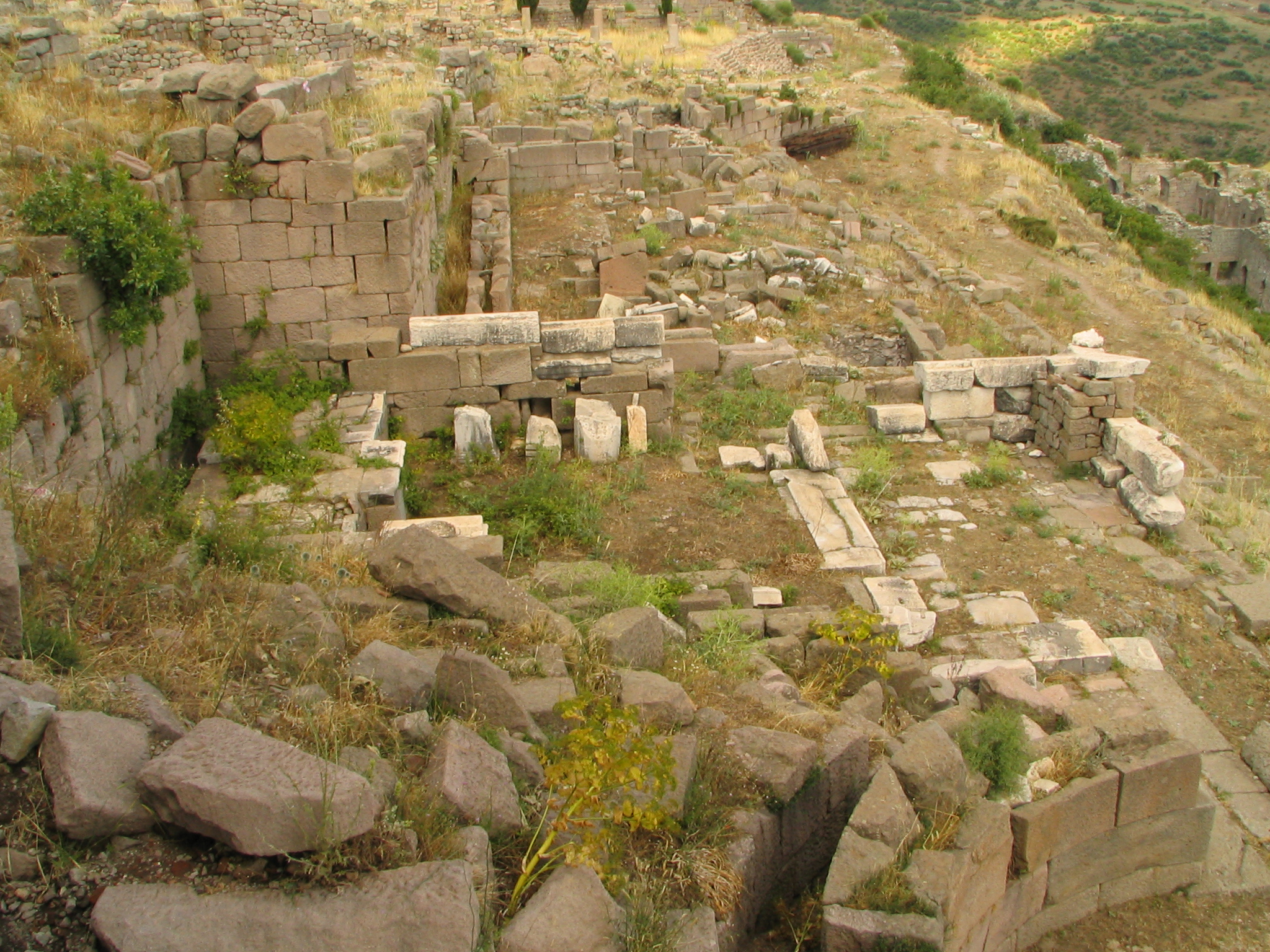 Pergamon (Bergama, Turkey), Temple of Hera, from the West